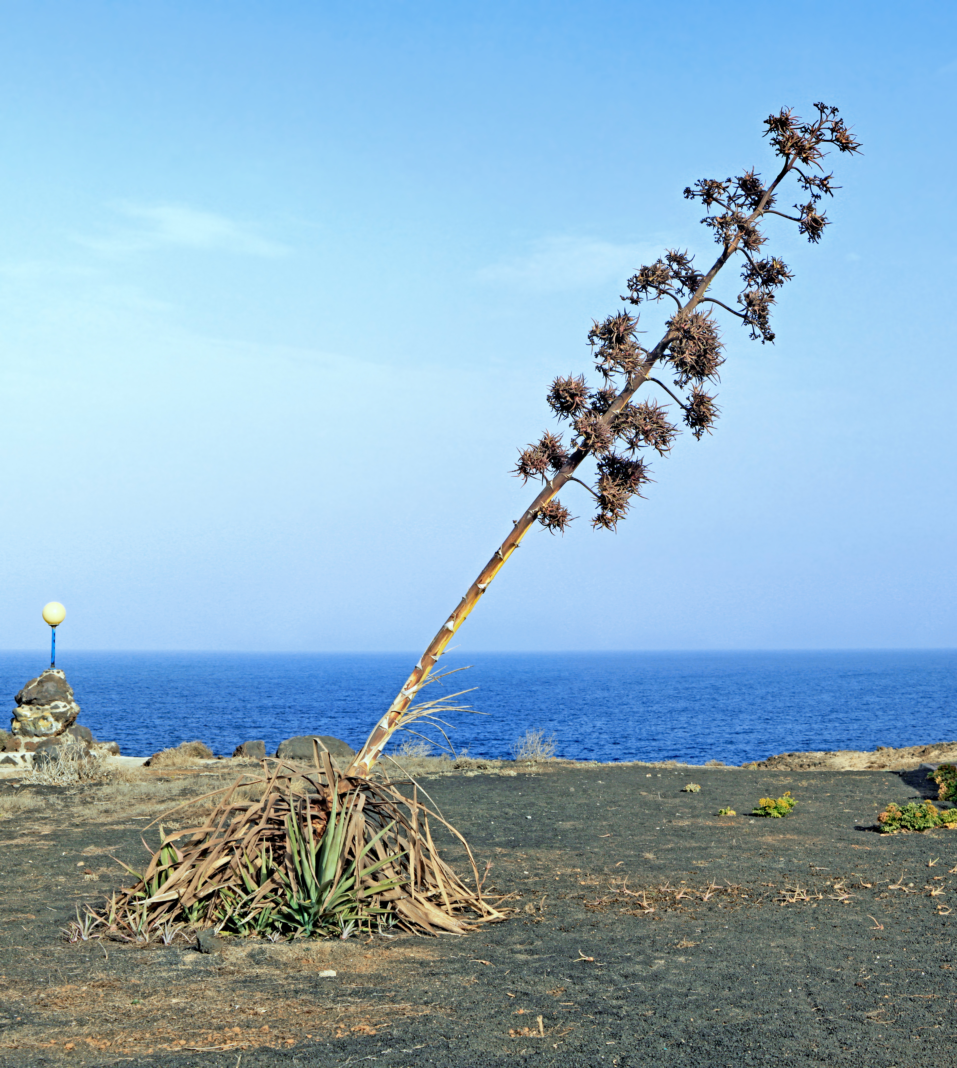 Furcraea foetida (L.) Haw. , Giant Cabuya; Plant with bulbils; Charco del Palo, Lanzarote, Canary Islands, Spain.